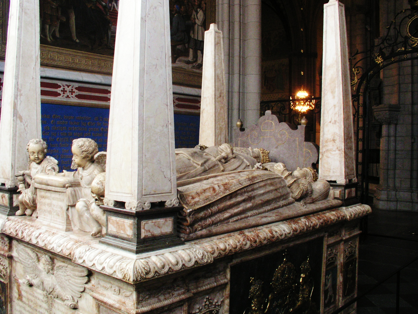 Uppsala domkyrka / Uppsala cathedral. Grave of Gustav Vasa and two of his wives